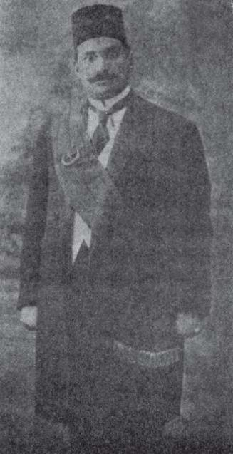 Egyptian Judge Atreby Pasha Aboulezz